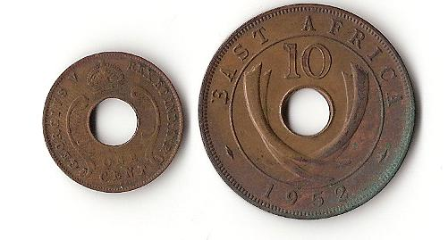 A Ten Cent and One Cent British East Africa piece from 1952(10) and 1924 (1).